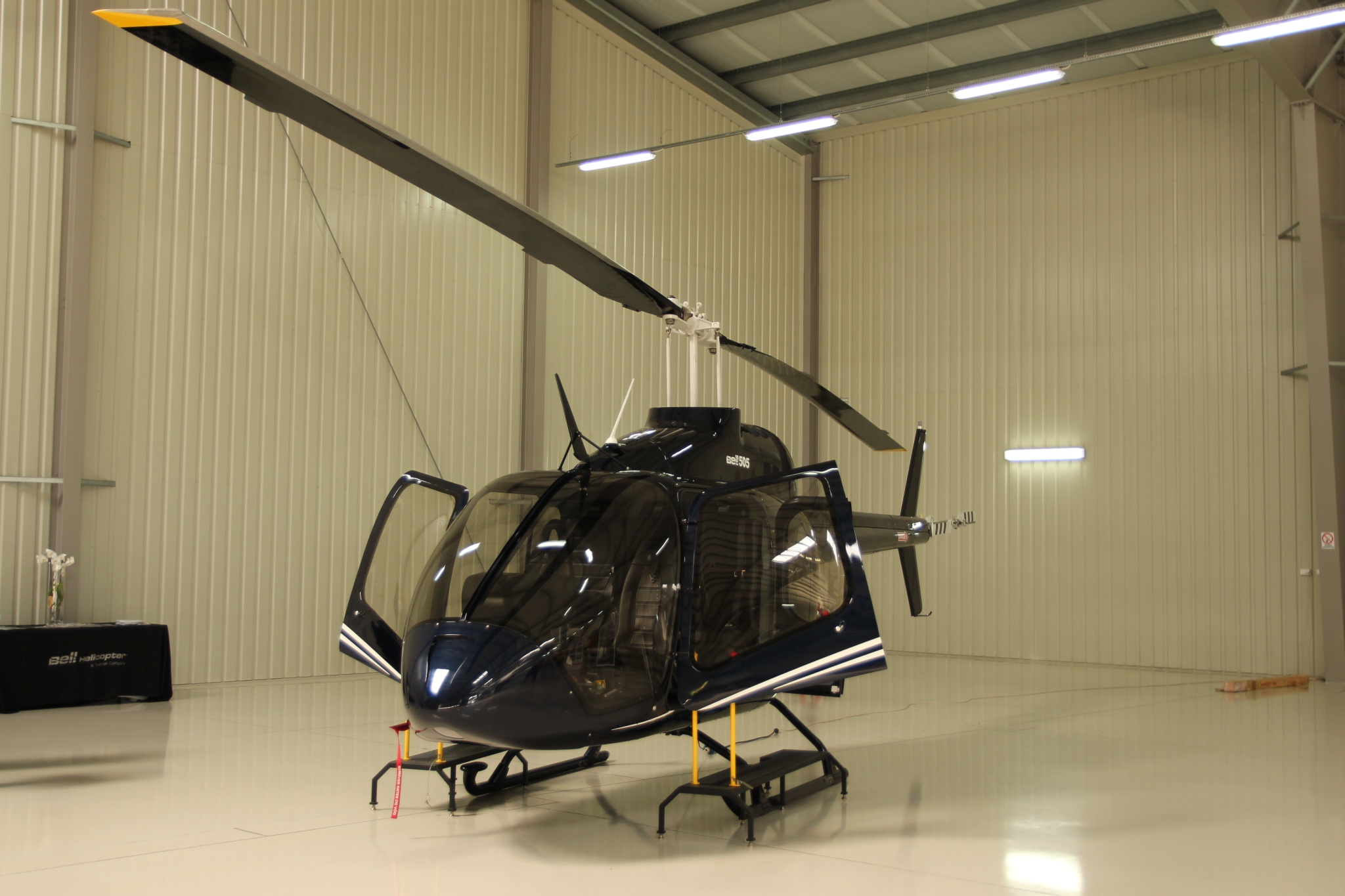 The Bell 505 Jet Ranger X helicopter mockup during presentation in Konstancin Jeziorna near Warsaw, Poland